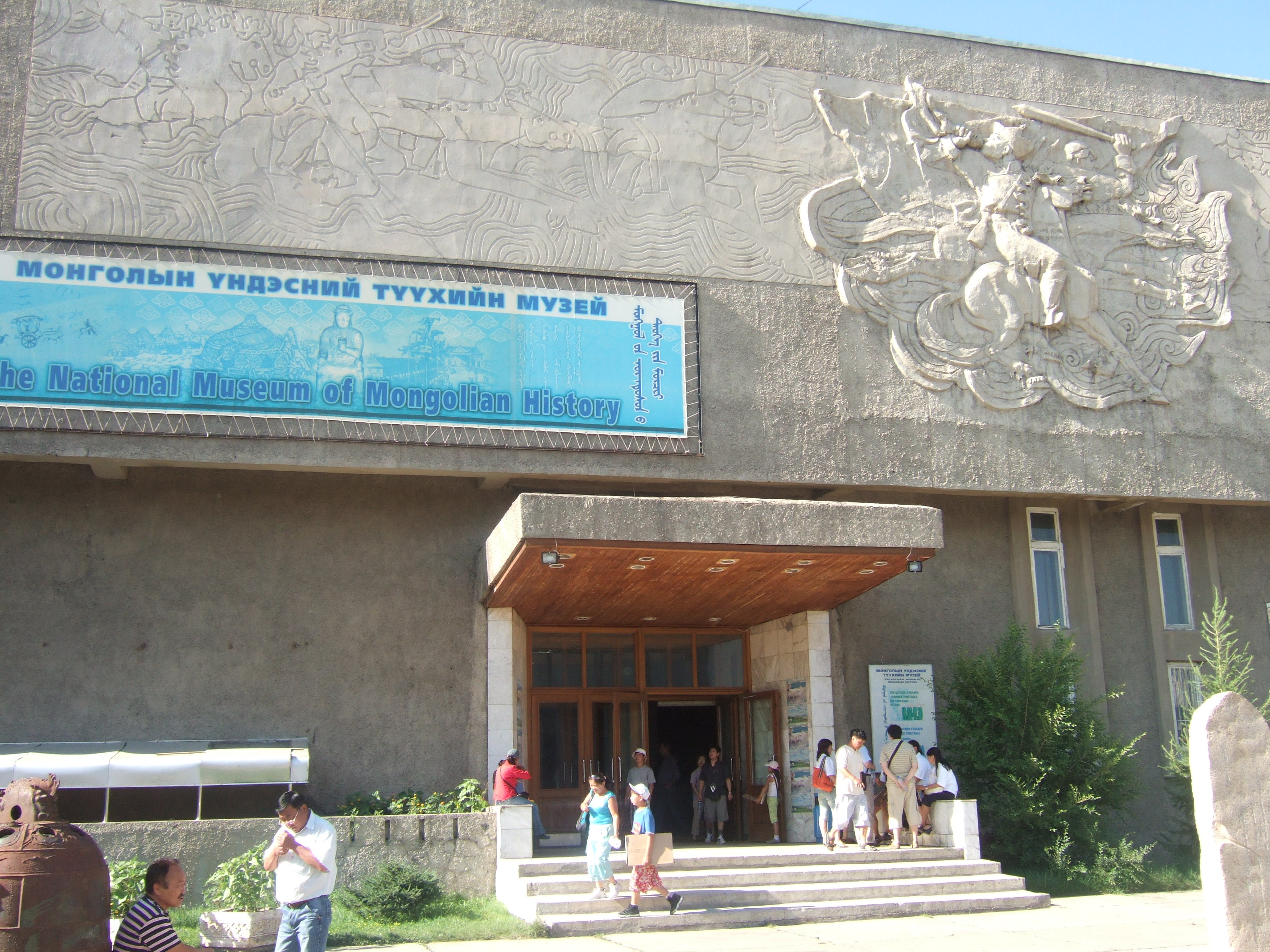 The National Museum of Mongolian History, taken in July 2007 by Clive Newstead.